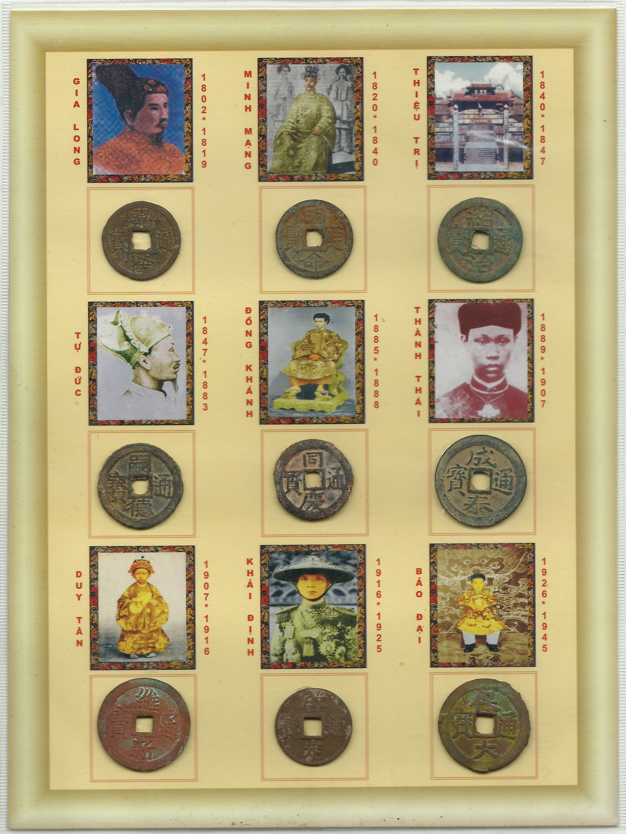 Various copper (incl. brass) coins produced under the Nguyễn Dynasty (阮朝), these coins circulated alongside the Mexican Peso, the French Cochinchinese Piastre, and later the French Indo-Chinese Piastre and generally had a value of 500 or 600 văn (文) for 1 Piastre (元/銅). The following coins are included in this image 📸💴: Gia Long Thông Bảo (嘉隆通寶) Minh Mạng Thông Bảo (明命通寶) Thiệu Trị Thông Bảo (紹治通寶) Tự Đức Thông Bảo (嗣德通寶) Đồng Khánh Thông Bảo (同慶通寶) Thành Thái Thông Bảo (成泰通寶) Duy Tân Thông Bảo (維新通寶) Khải Định Thông Bảo (啓定通寶) – Machine-struck Bảo Đại Thông Bảo (保大通寶) Uploaded from my Microsoft Lumia 950 XL with Microsoft Windows 10 Mobile 📱.